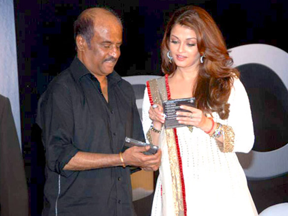 Rajinikanth and Aishwarya Rai at the audio release of Enthiran